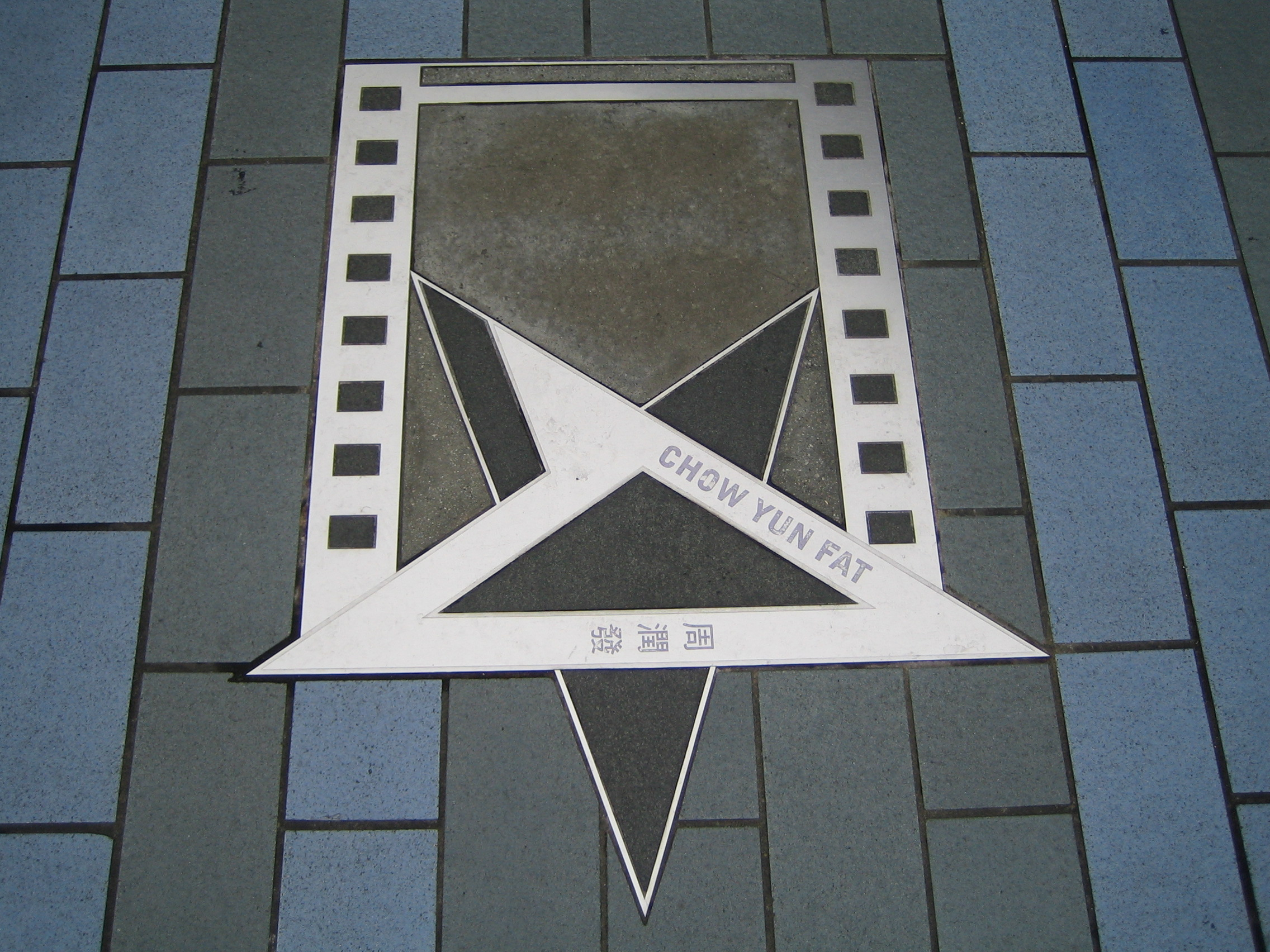 Chow Yun-Fat on the Avenue of Stars, Hong Kong.